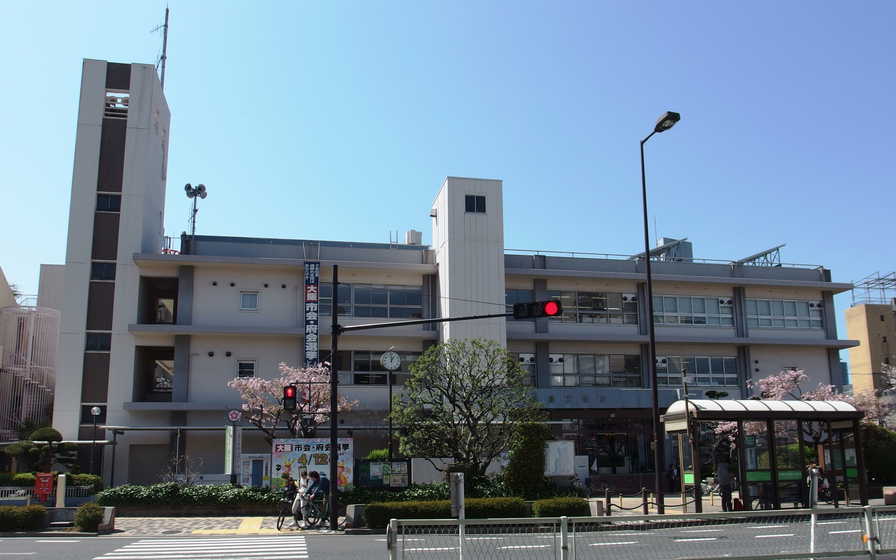 Miyakojima Word Office in Osaka, Osaka Prefecture, Japan